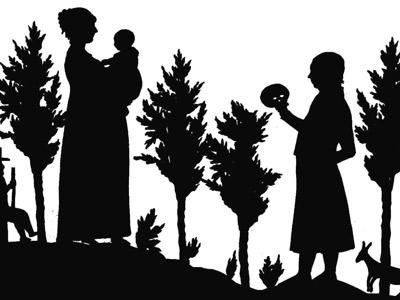 Christian Lintrup, amtsfysikus, to the right, with his wife Johanne née Hoelfeldt and their first child. To the left Jens Lintrup, parish priest, his father.